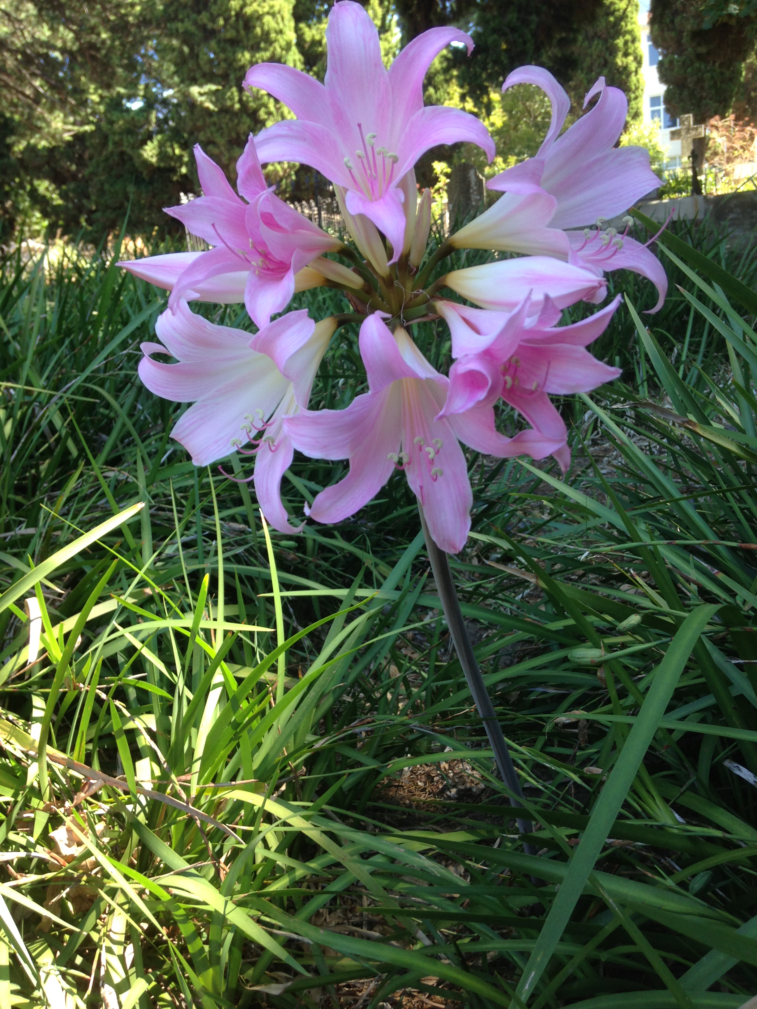 Amaryllis belladonna (March lillies) blooming in March in Rondebosch, Cape Town, South Africa.